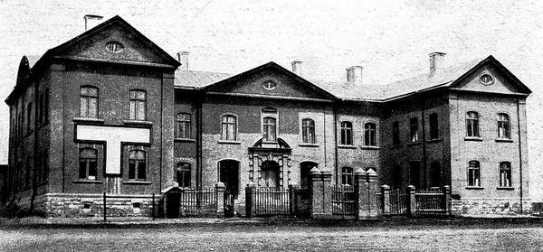 Mongolor building in Ulaanbaatar. Built in 1905. Currently named Mongem Hospital. Along north side of Peace Avenue close to Nomin Hypermarket Sky Town.